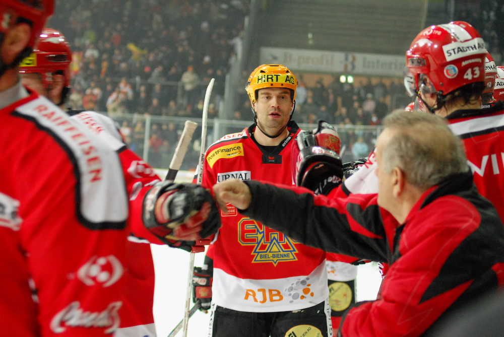 Icehockey Switzerland National League B, EHC Biel vs La-Chaux-de-Fonds